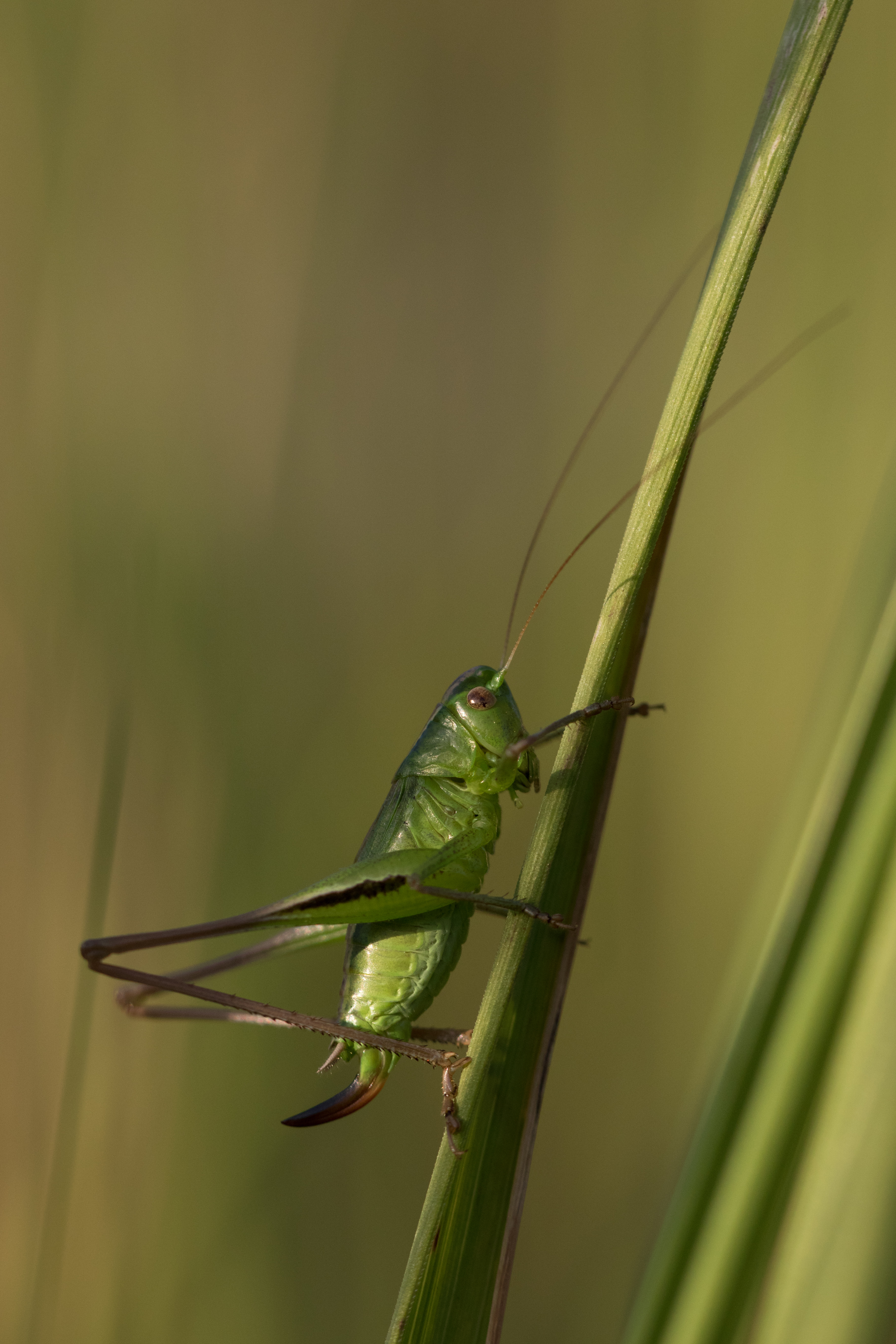 First finding of southern bushcricket species Bicolorana bicolor in Estonia was 2015. This is one of many signs that climate is changing.